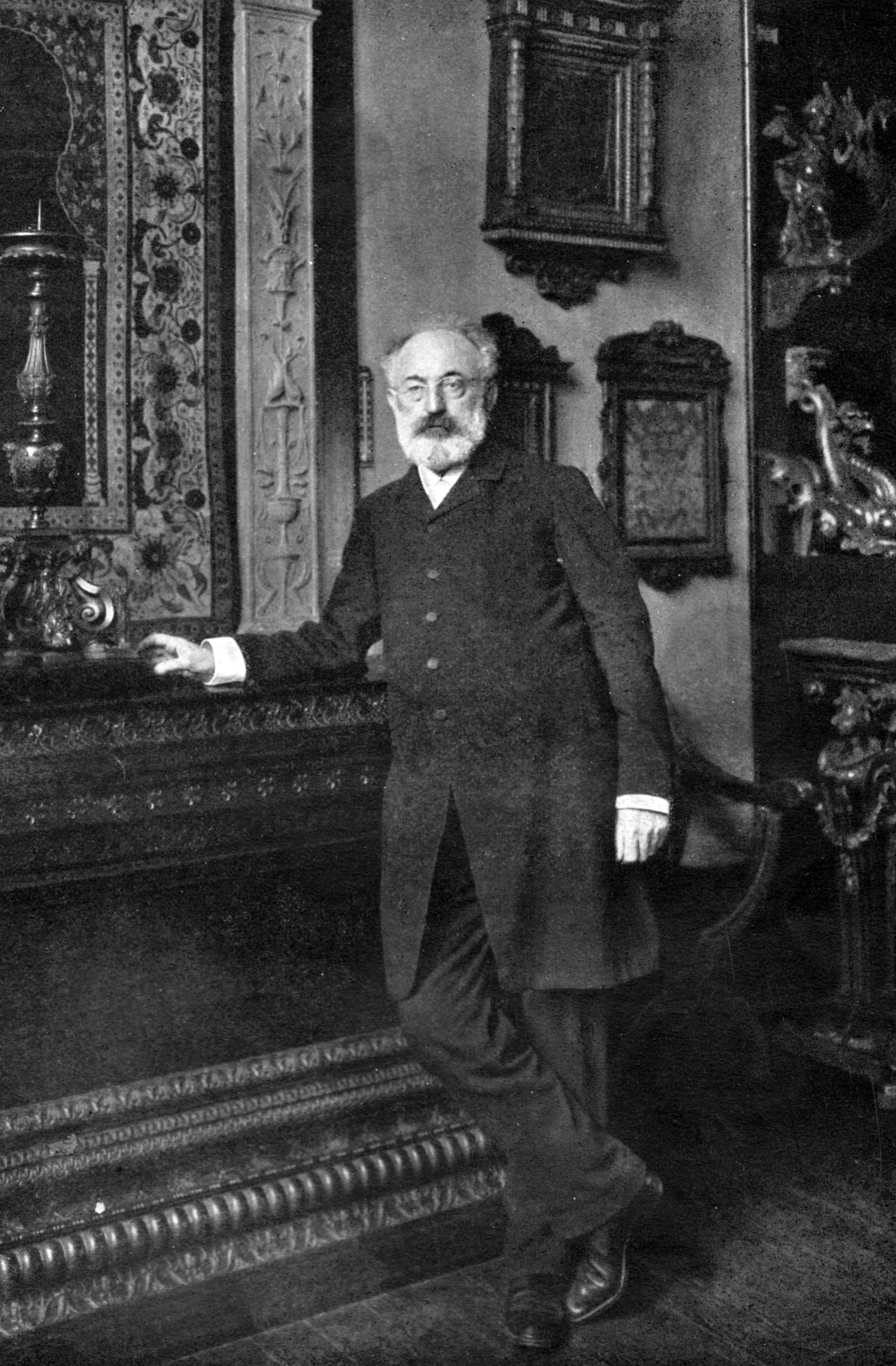 German art historian Julius Lessing